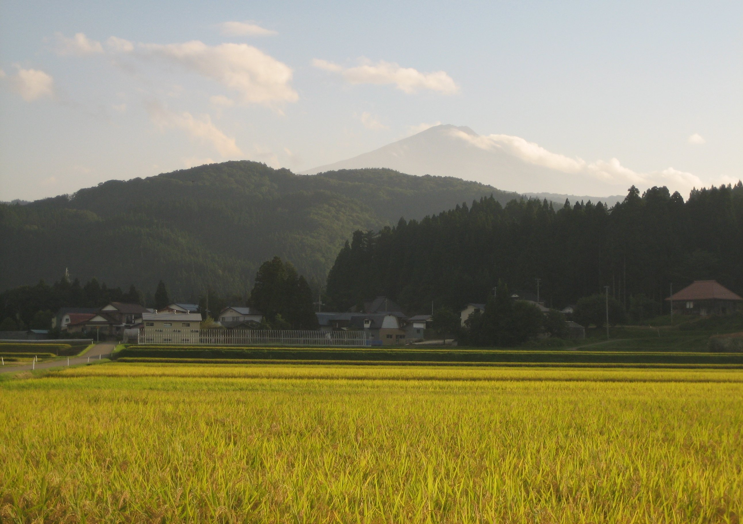 Mt Chokai with a rice field in the foreground, photographed near Yashima Junior High School, Yashima, Yurihonjo, Akita, Japan.